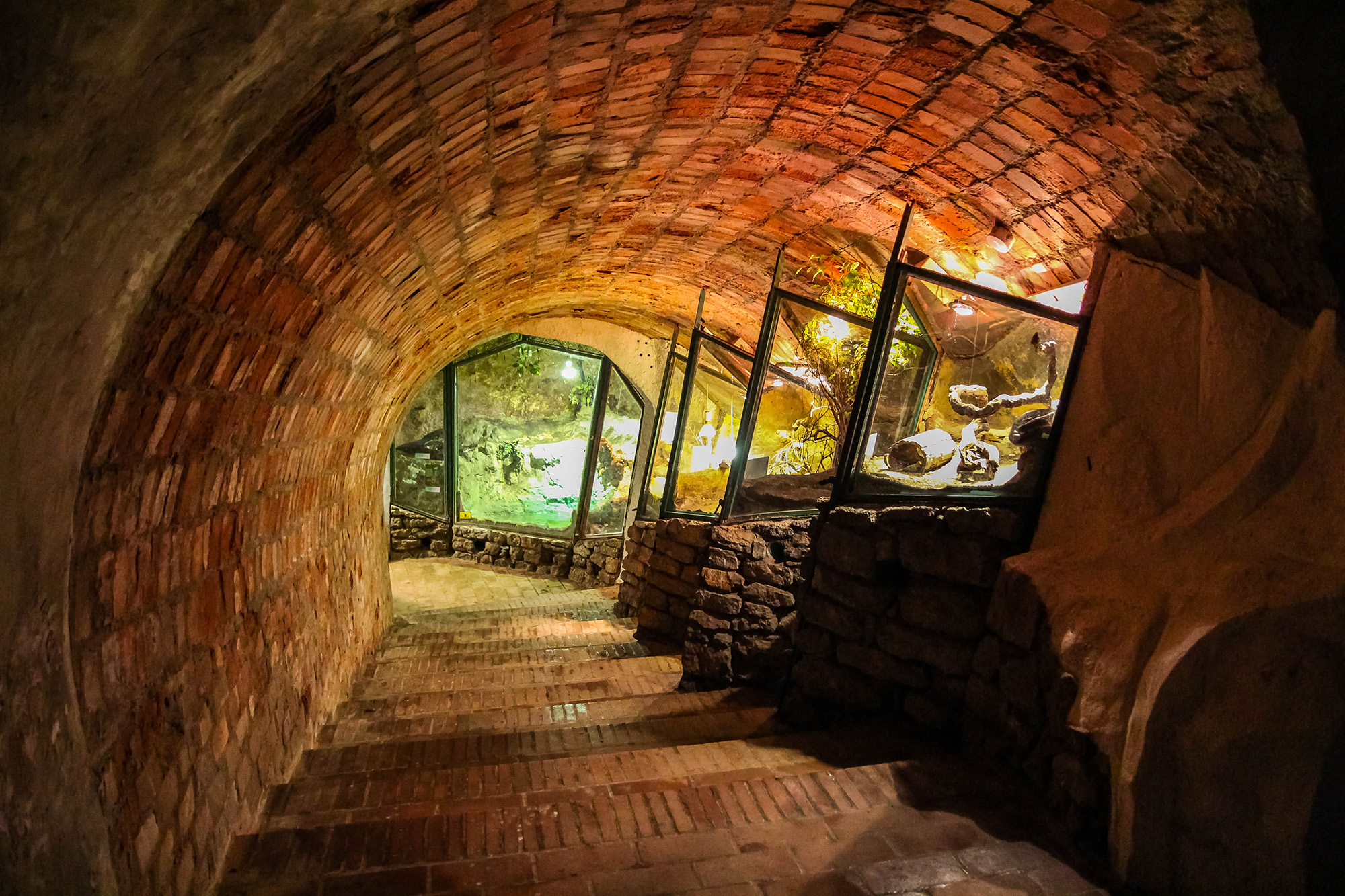 Inside of Pécs Aquarium-Terrarium in Munkácsy street, 2015